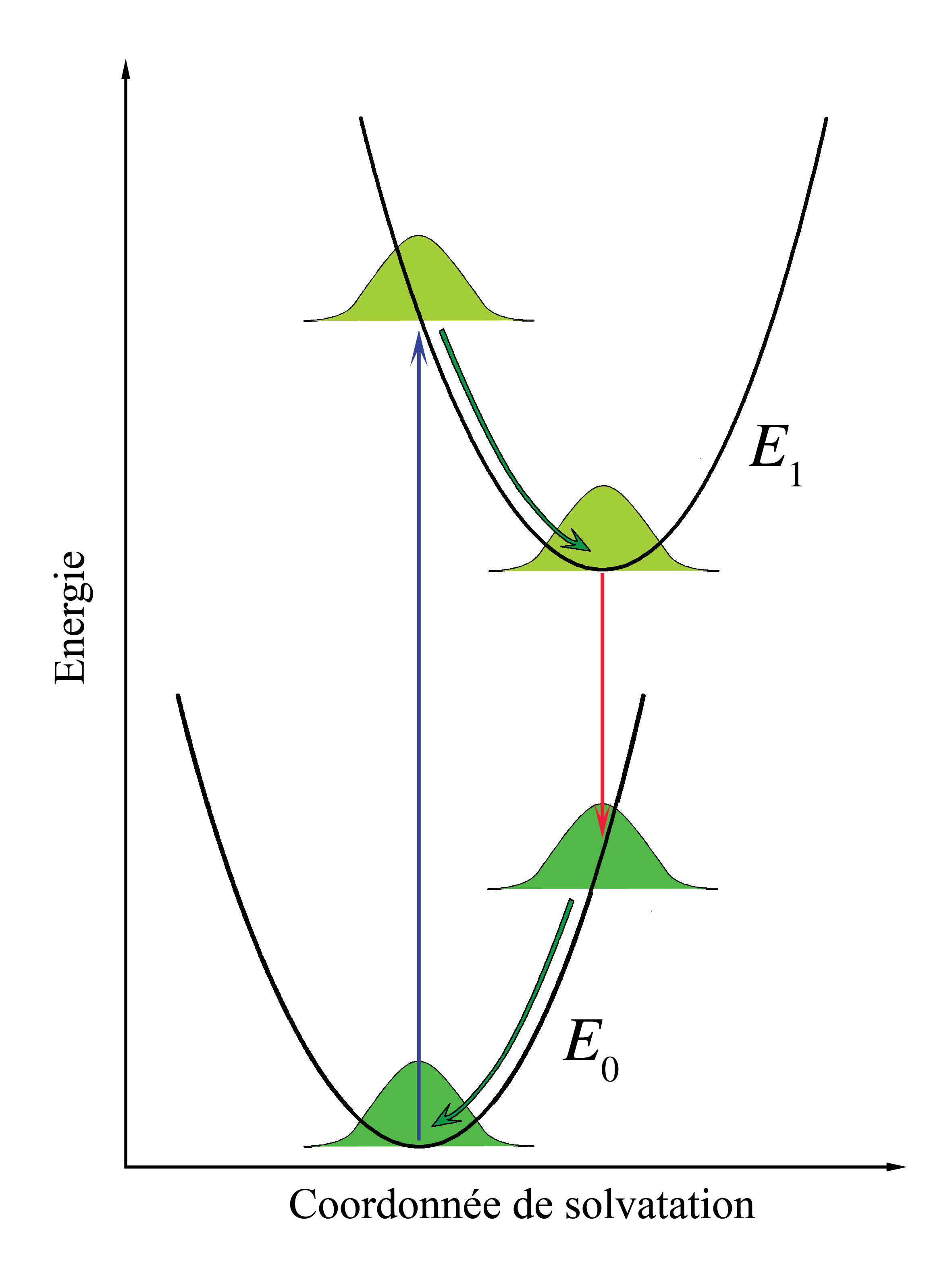 Diagram of the Franck Condon principle applied to solvation of chromophores. In french version. Diagramme du principe Franck-Condon appliqué à la solvatation des chromophores.